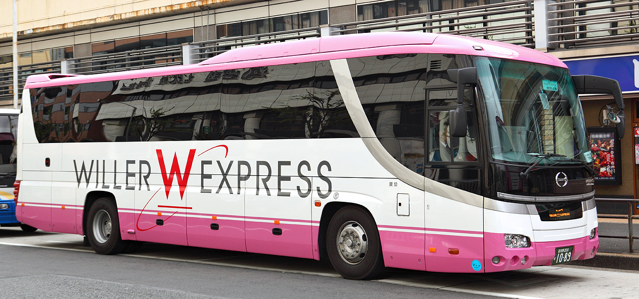 2nd generation Hino Selega of Willer Express